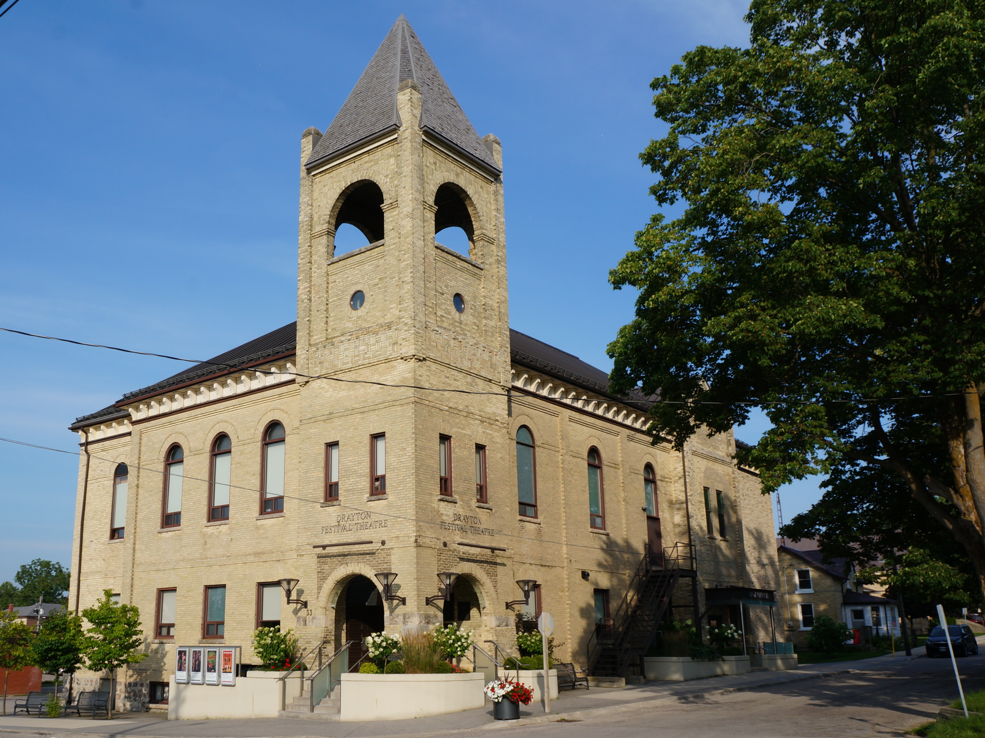 Exterior of the Drayton Festival Theatre in Drayton, ON